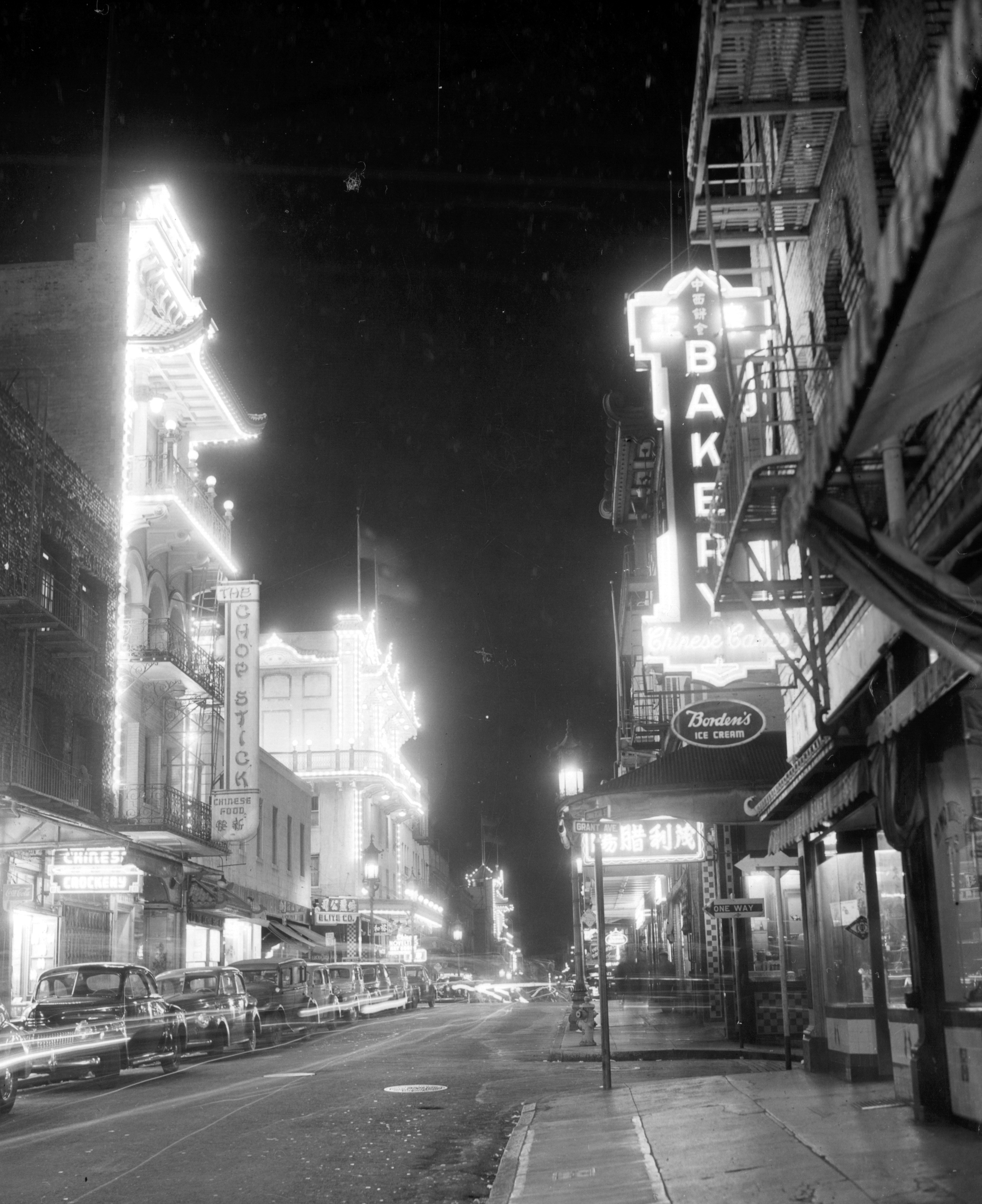 Main Streets of America. San Francisco Chinatown in 1945. From the National Archives 111-SC box 692 329507.